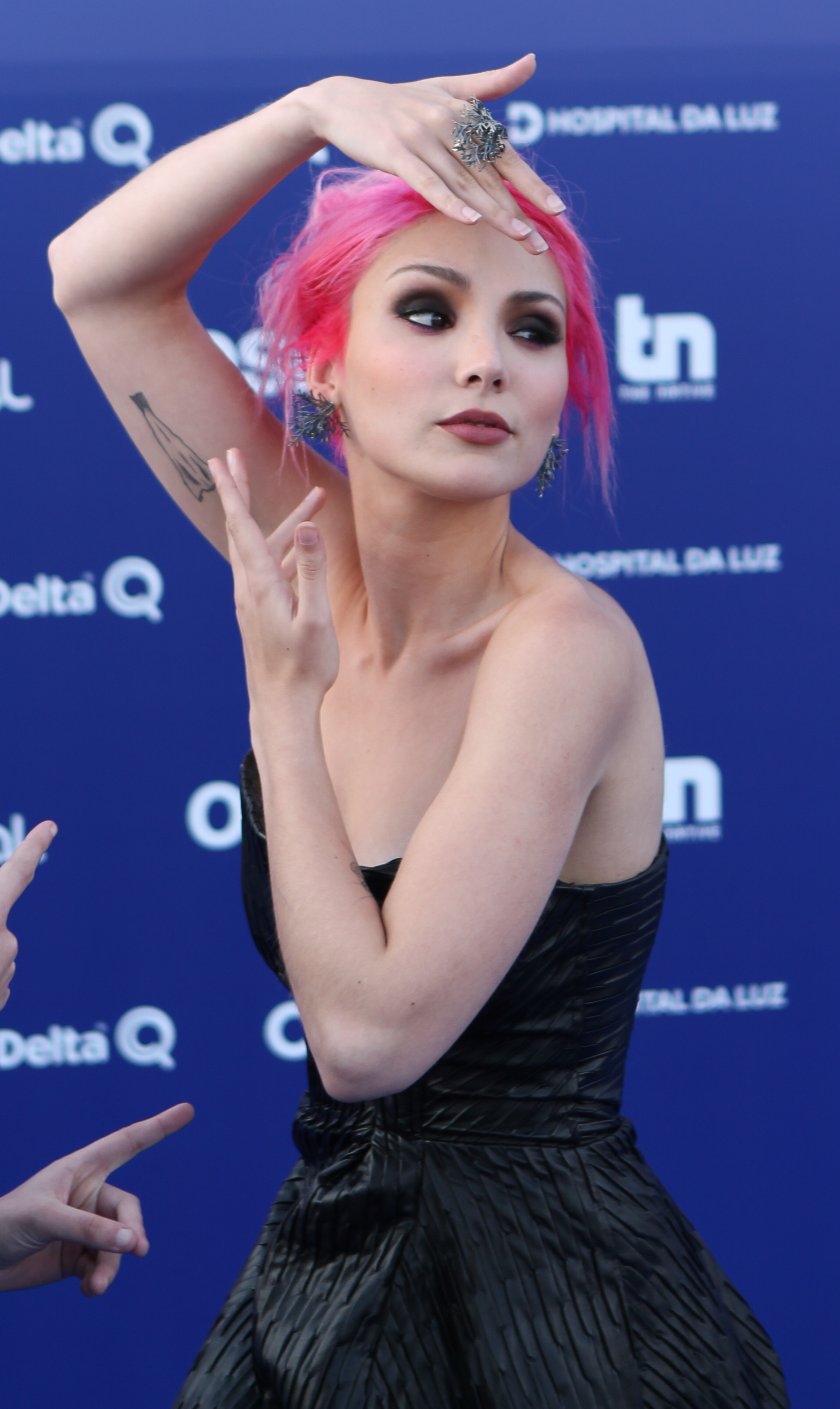 Cláudia Pascoal (Portugal) at the Eurovision Song Contest 2018 opening ceremony.